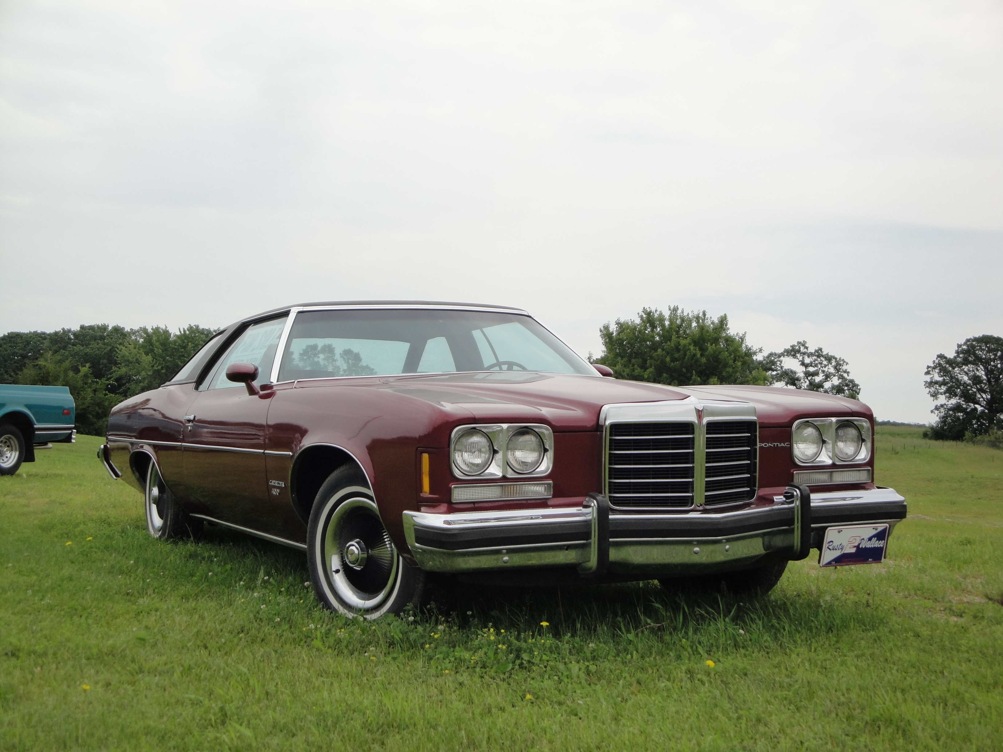 New London, Minnesota